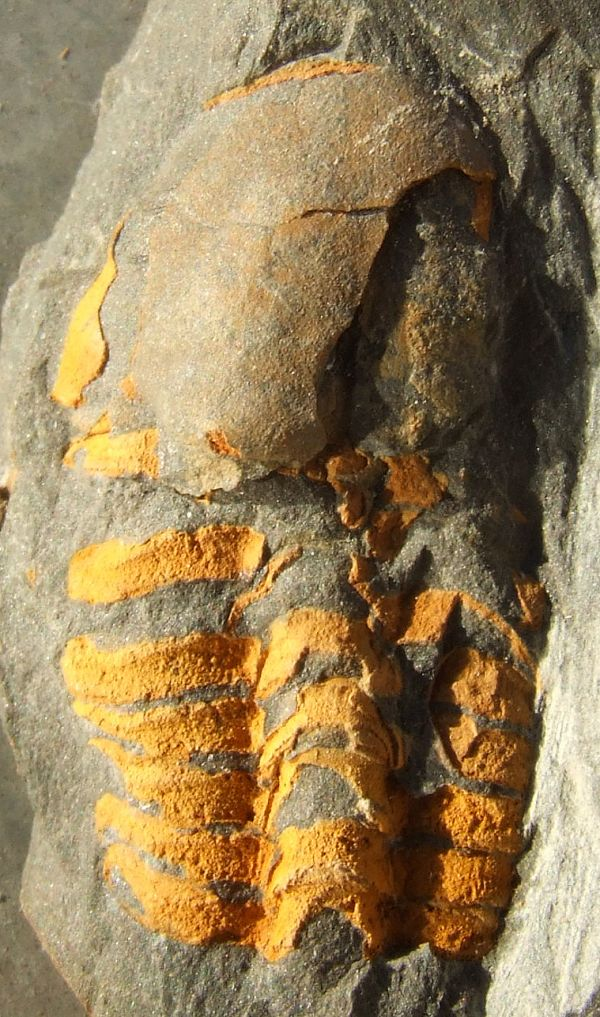 Agraulos ceticephalus. Jince, Czech